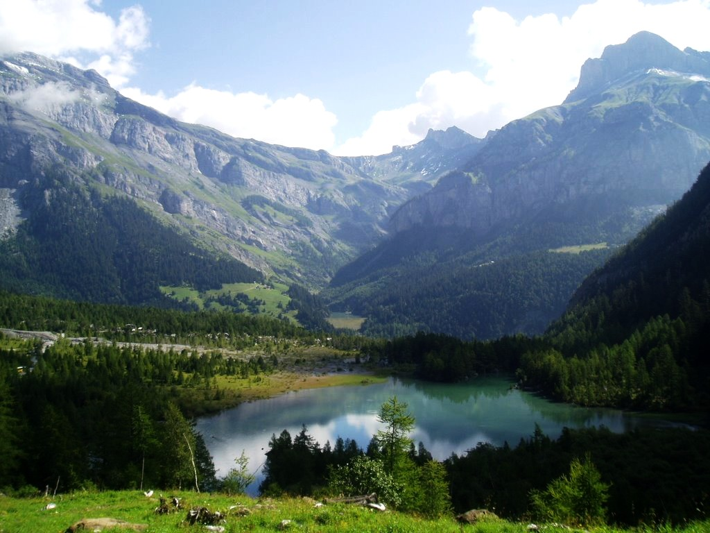 Lake Derborence, Valais